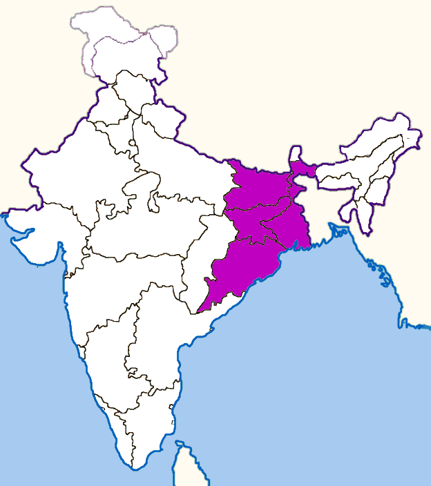 The states of East India. Whether Jharkhand and Bihar should be included is a matter of disagreement. Based on Image:Northindiamap.gif. QuartierLatin1968 21:54, 21 January 2006 (UTC)